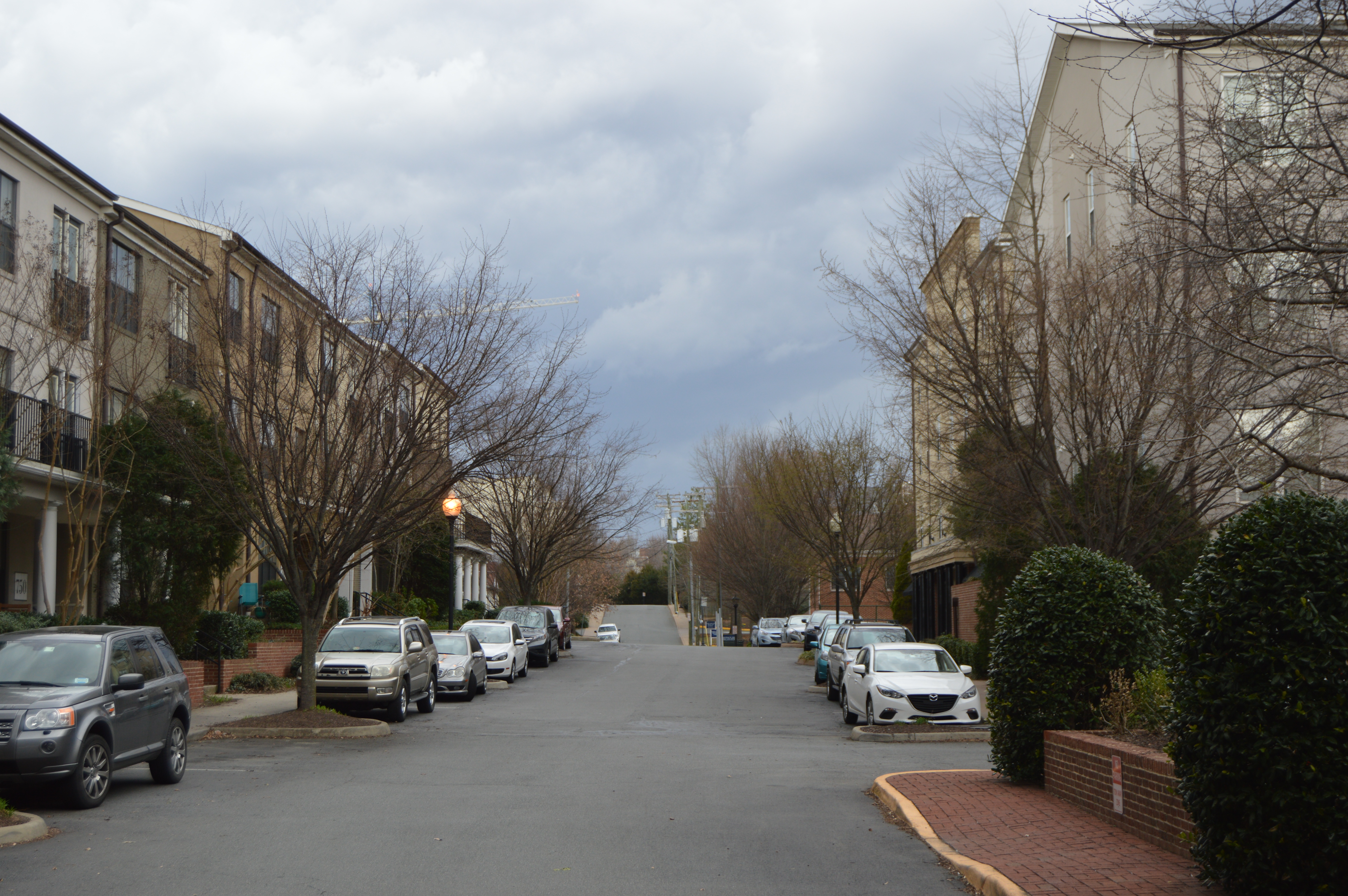 A driveway at the Condominiums at Walker Square complex in Charlottesville, Virginia, United States. This was formerly the site of the Rose Cottage/Peyton House, which was listed on the National Register of Historic Places in 1983 and removed from the Register in 2017.